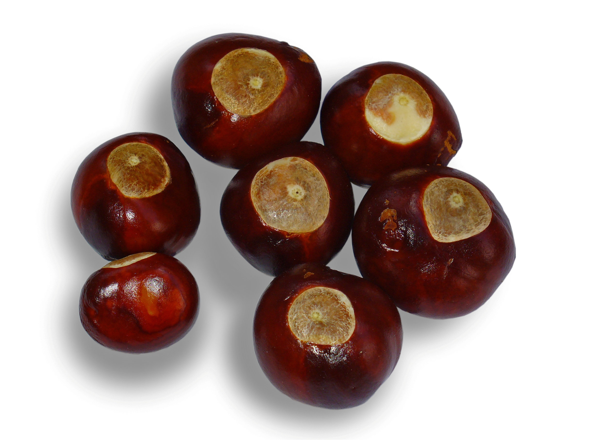 Aesculus glabra, Sapindaceae, Ohio Buckeye, American Buckeye, Fetid Buckeye, nuts. The fresh, peeled seeds are used in homeopathy as remedy: Aesculus glabra (Aesc-g.)